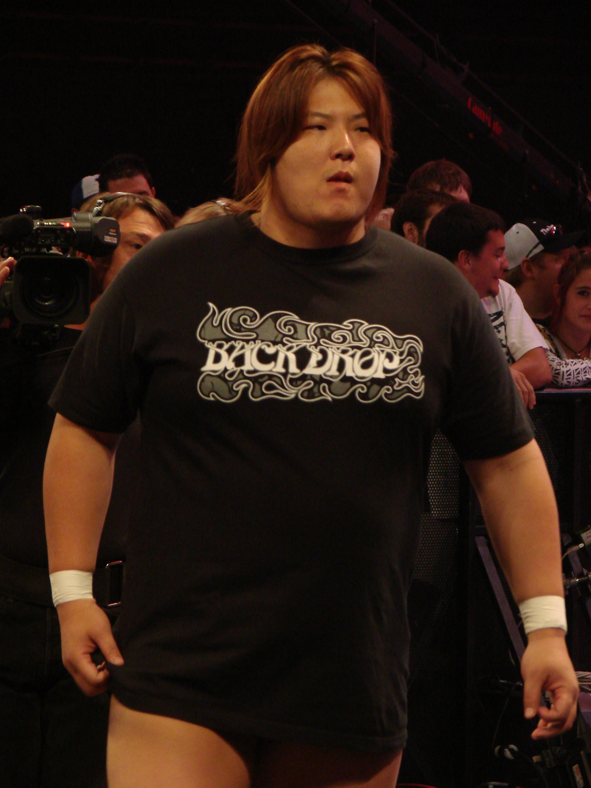 Takeshi Morishima at a WWE SmackDown taping. i wireless Center; Moline, Illinois. Taken by myself, and rotated.